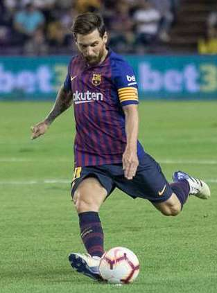 Real Valladolid - F. C. Barcelona, 2nd fixture of the 2018-19 La Liga, August 25, 2018.